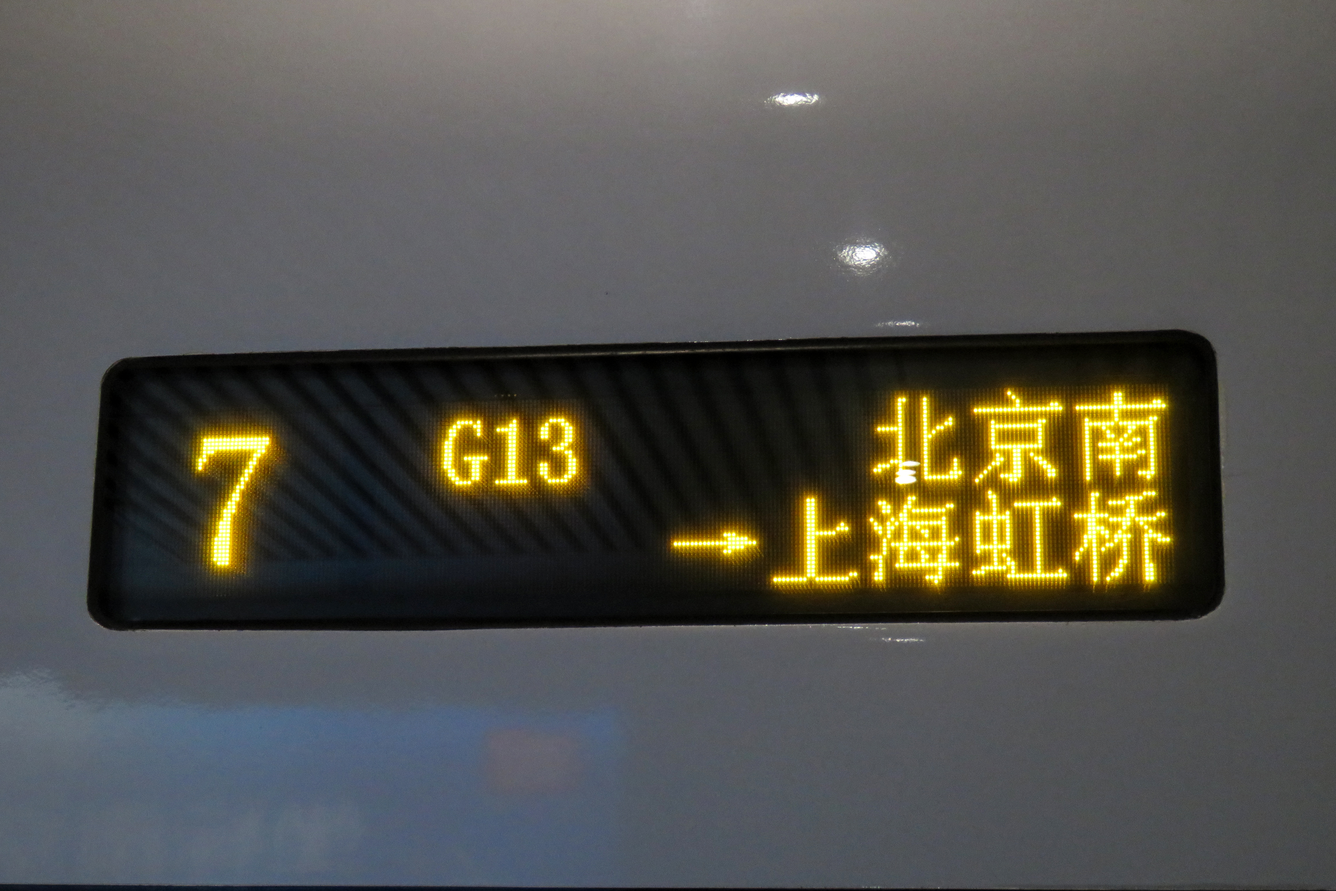 Taken at Nanjingnan. G13/14 has a better time of departure than G1/2 from the perspectives of some people.